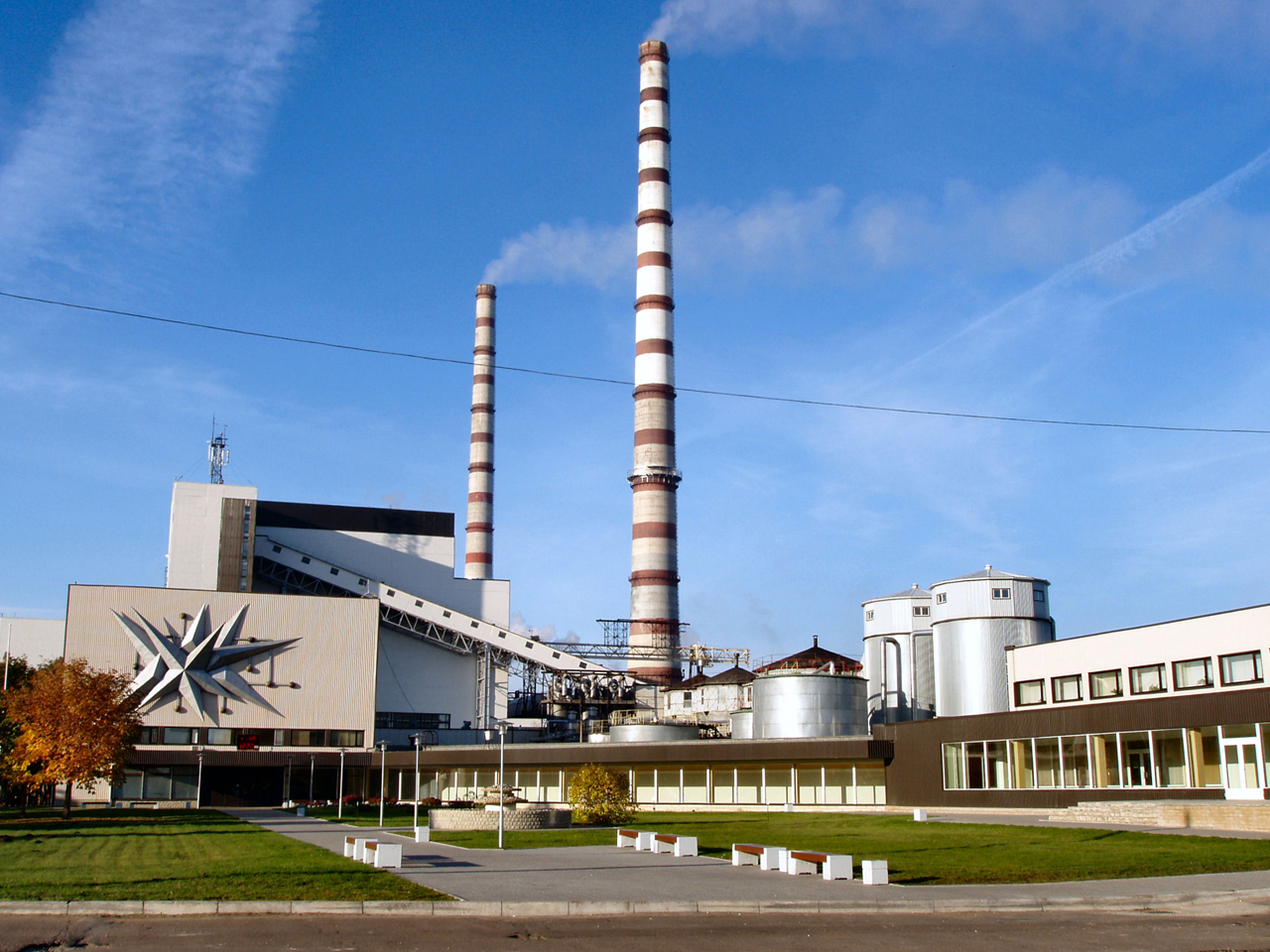 Eesti Power Station in Narva, EstoniaEesti: Eesti Elektrijaam